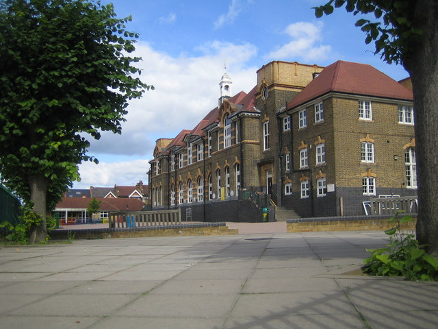 Ilford: Highlands Primary School Situated in the triangle of land bounded by Wanstead Park Road, Highland Gardens, and Lennox Gardens, this large school serves the Cranbrook area of Ilford. The school was built in 1905. The London Borough of Redbridge is responsible for the school and its website waxes lyrical about it, but, alas as I write, the description contains three elementary spelling and grammar mistakes. I despair...